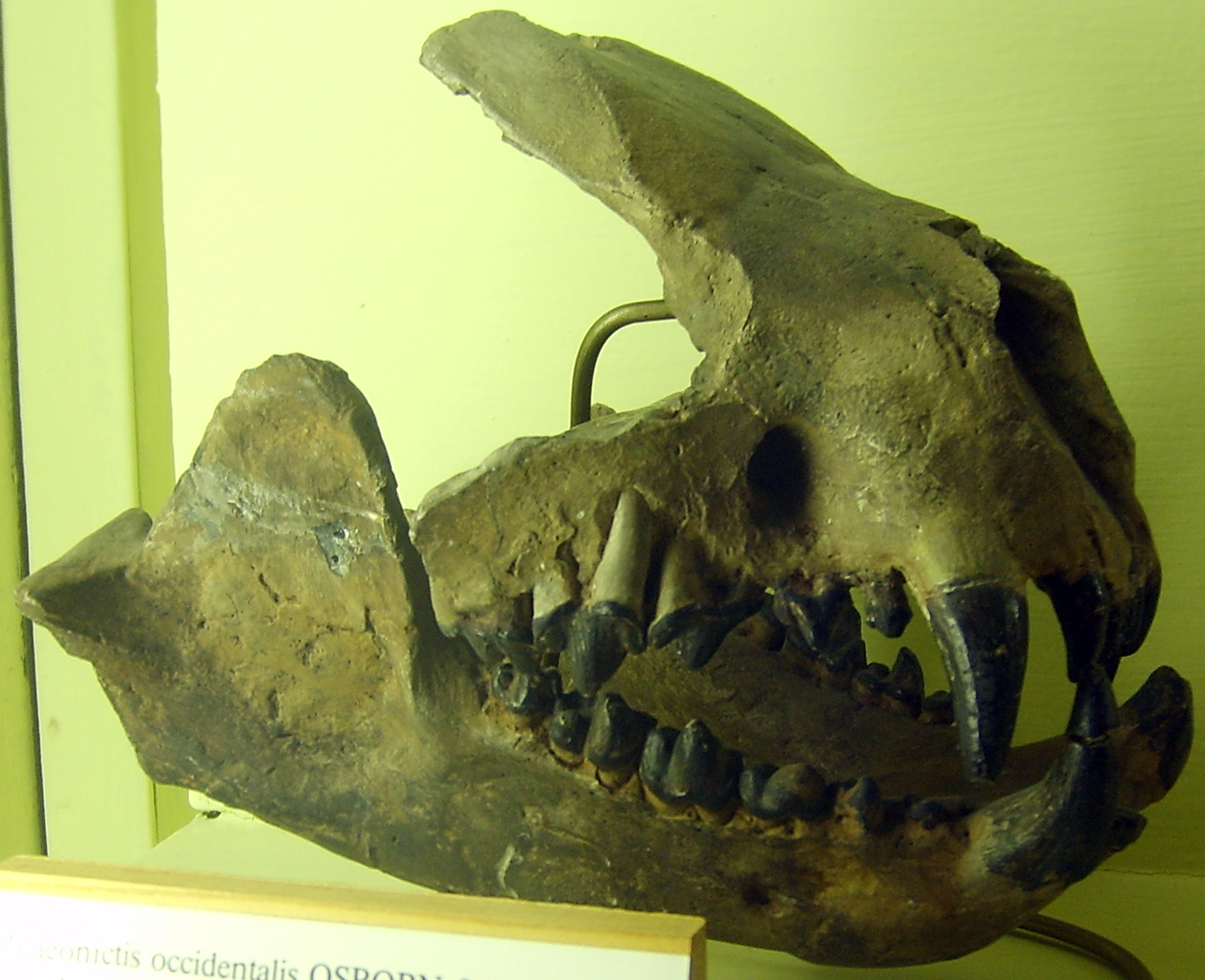 Part of a Palaeonictis occidentalis skull at the Museum für Naturkunde, Berlin.